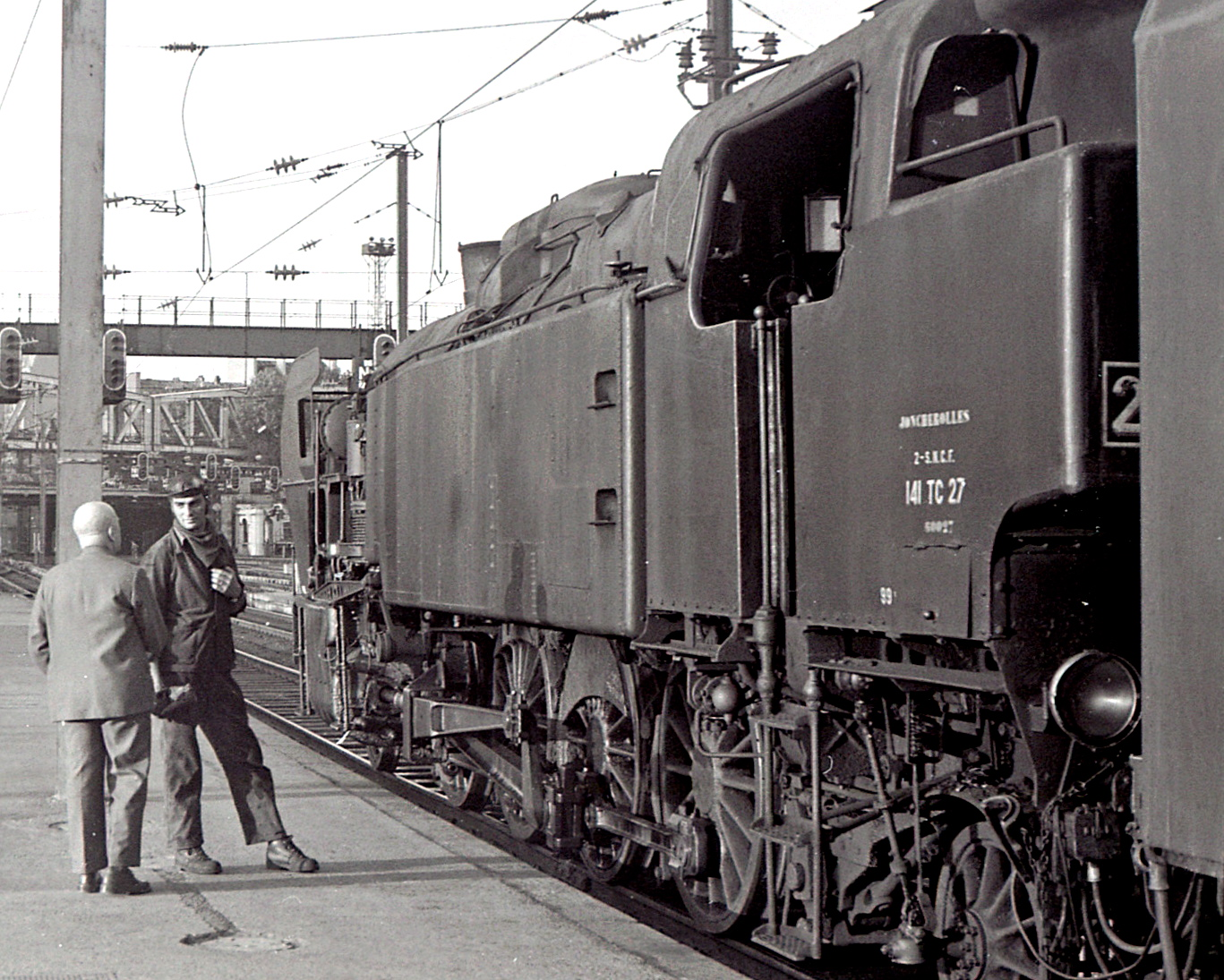 During the last months of steam suburban working in Paris.